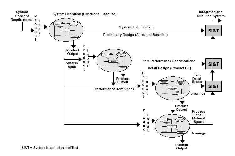 Image extracted from Systems Engineering Fundamentals. Defense Acquisition University Press, 2001